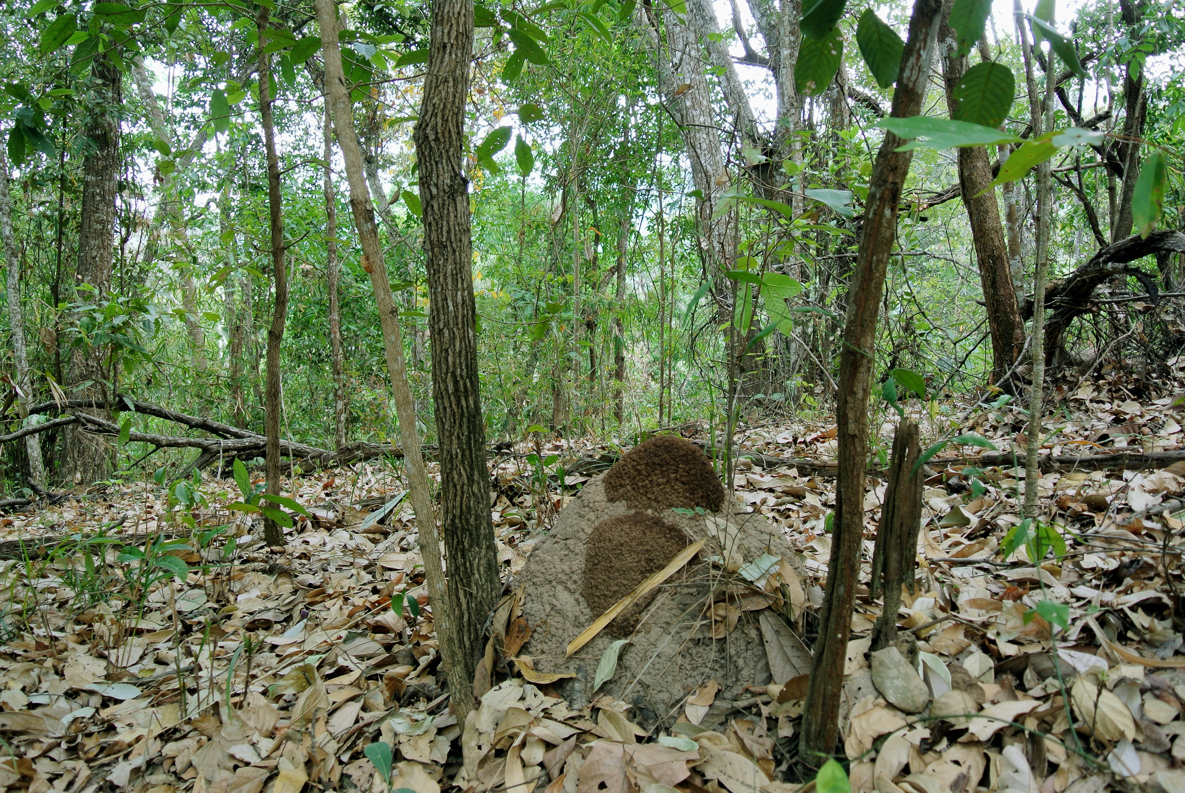 Termite mound and subtropical dry broadleaf forest in Northern Thailand, at the end of the dry season.